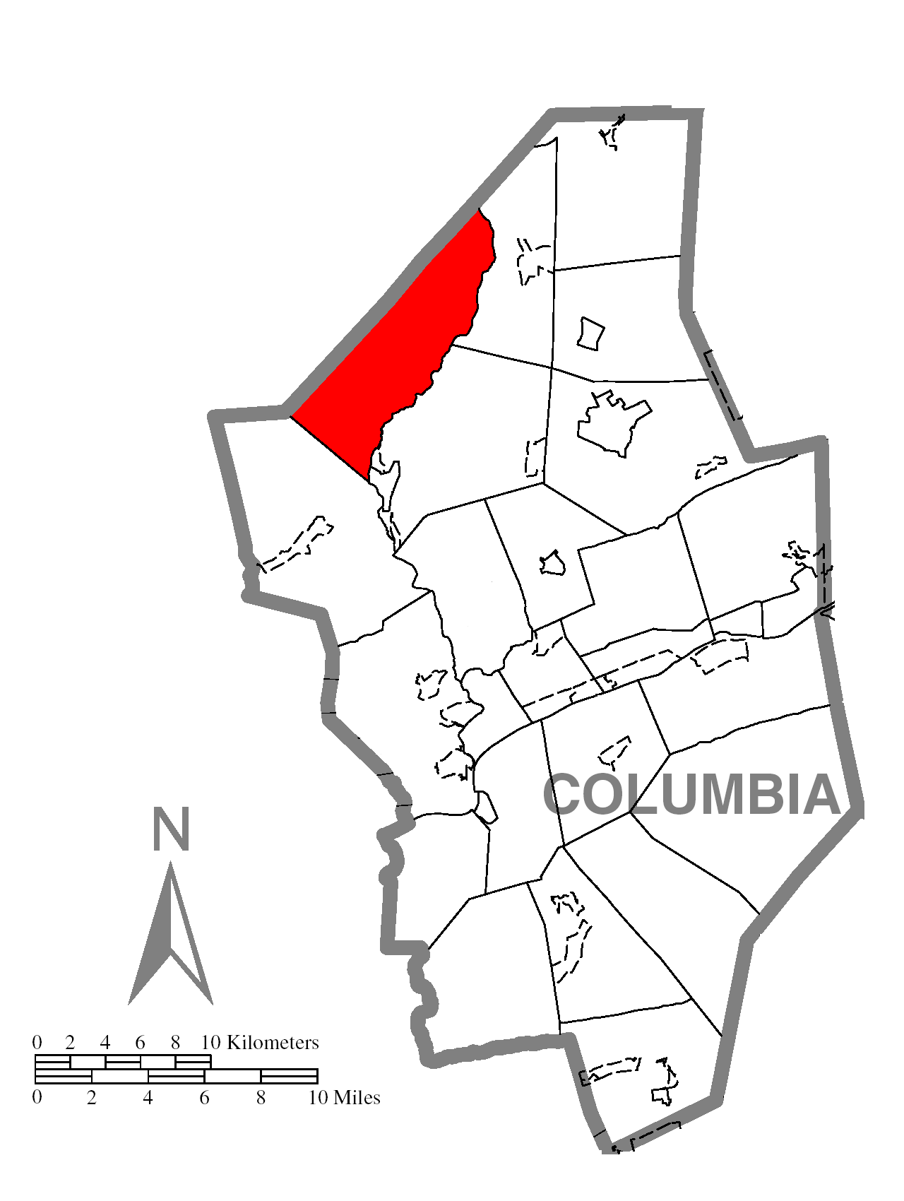 A map of Columbia County showing Pine Township, Pennsylvania (alternate) highlighted on the map.